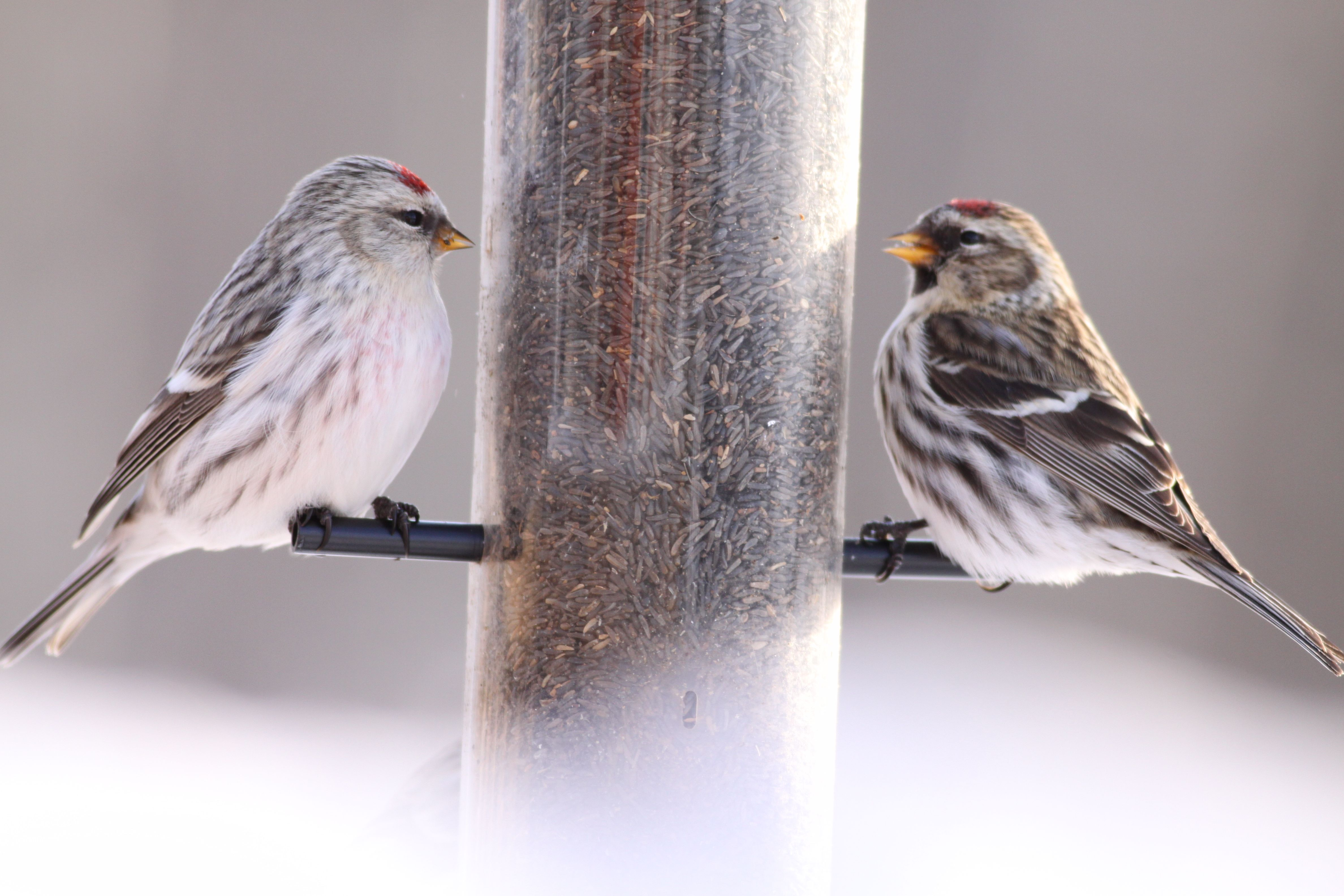 Hoary Redpoll & Common Redpoll, Two Hills, Alberta, Canada